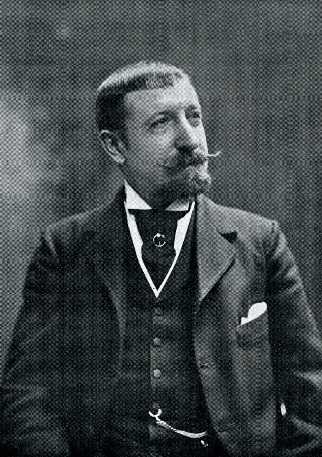 French librettist Paul Milliet (1855-1924)